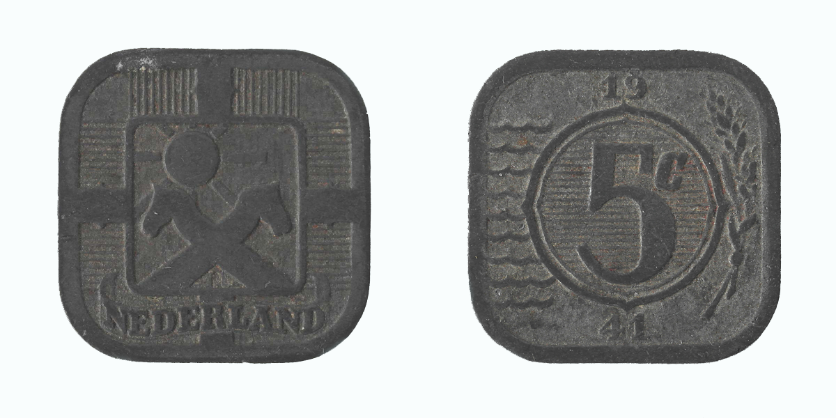 5 cents 1941 The Netherlands